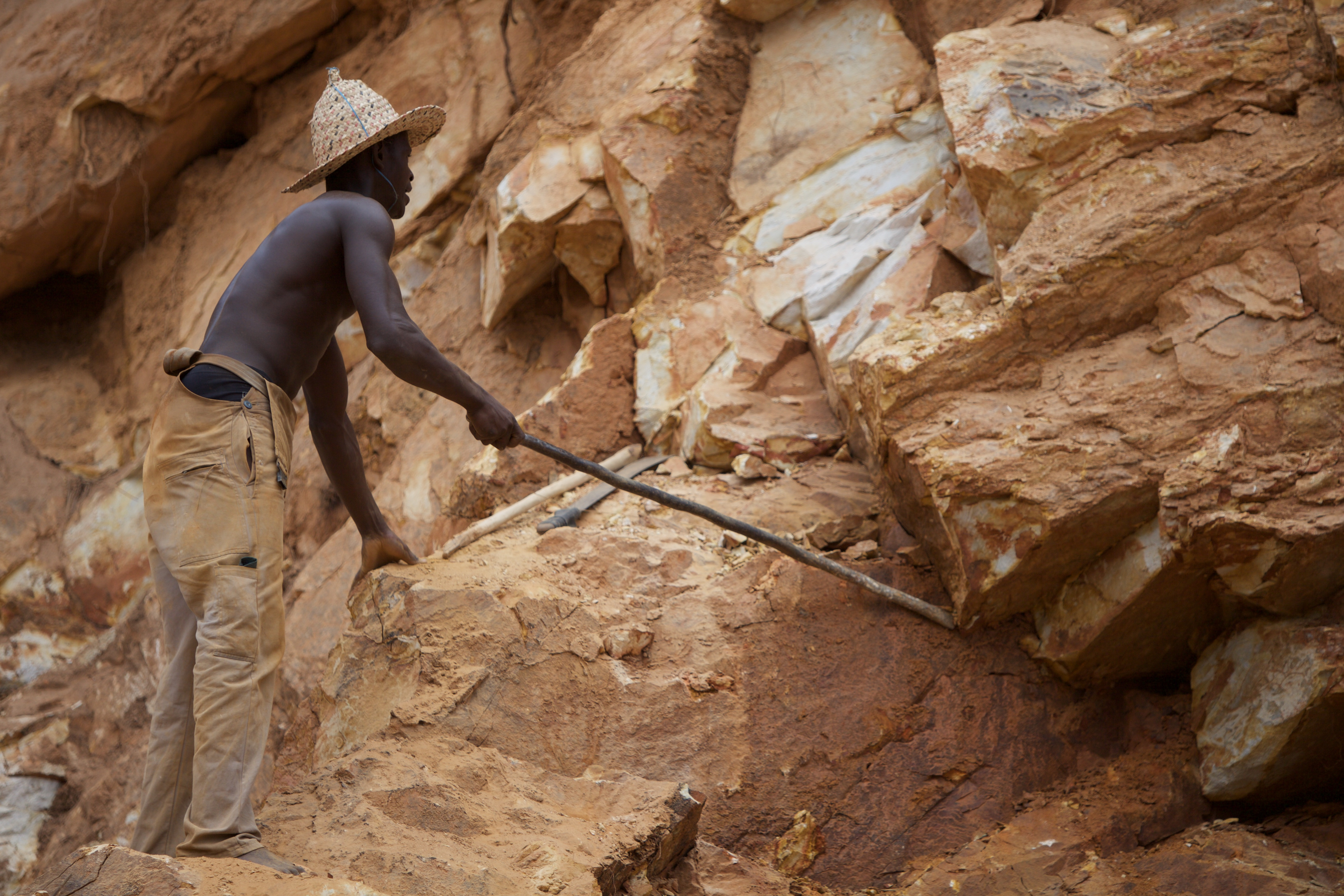 This is an image of "African people at work" from Central African Republic